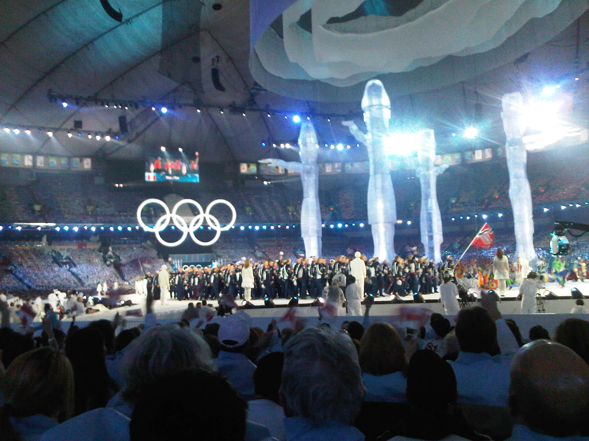 12th row floor for the Vancouver Olympics Opening Ceremonies.